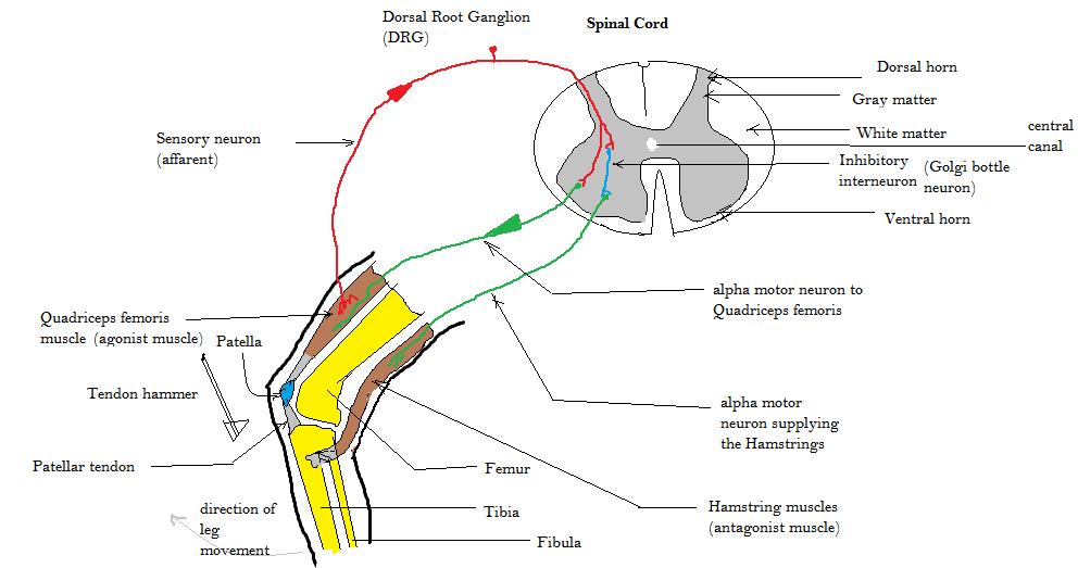 Schematic representation of patellar tendon reflex (knee jerk) pathway (red and green arrows). The reciprocal innervation via an inhibitory neuron (blue) to the antagonist hamstring muscle is also shown.